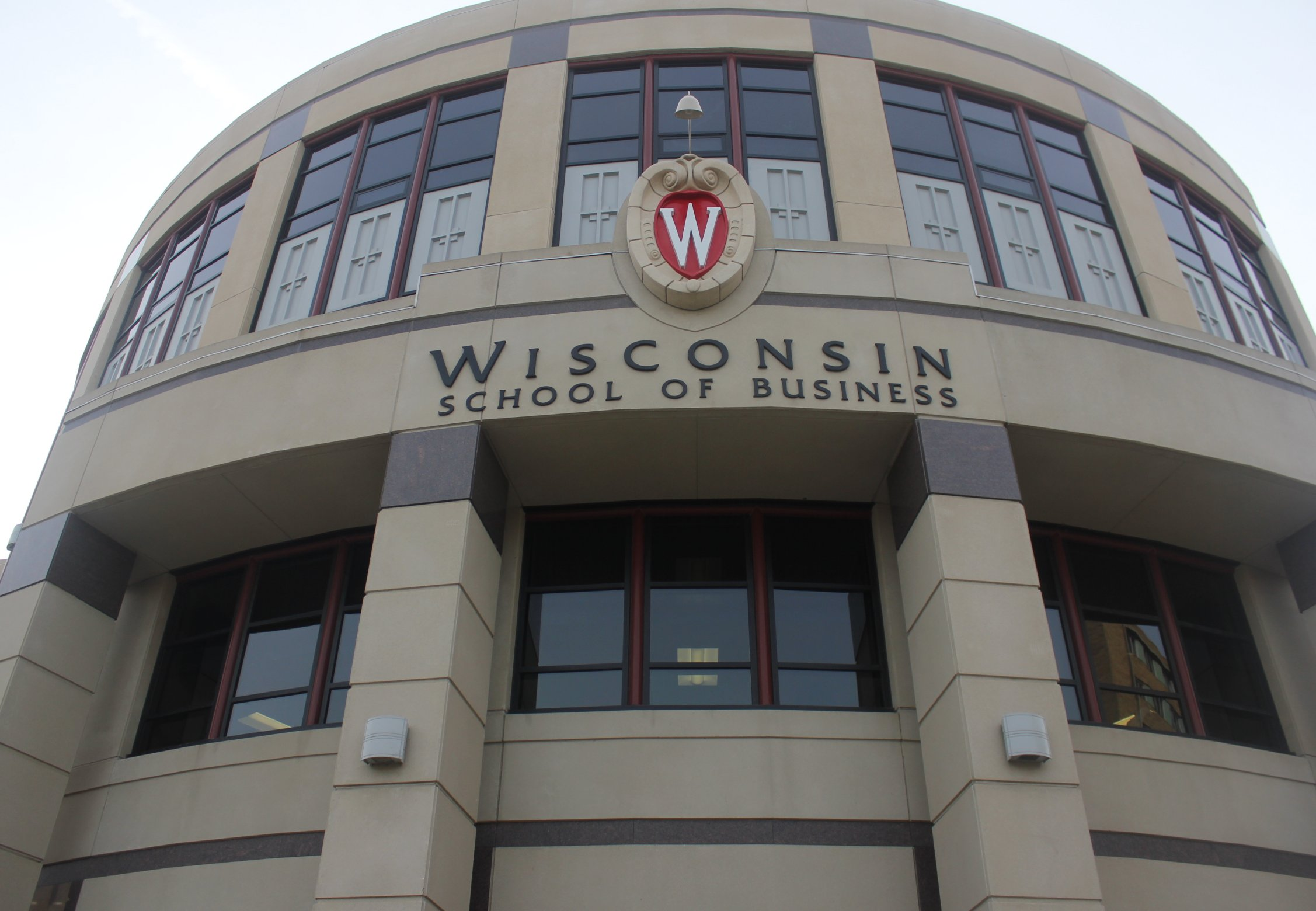 Grainger Hall at UW - Madison